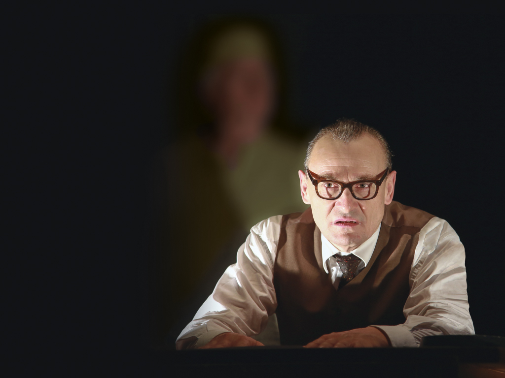 Franz Froschauer in 'Eichmann' (2016)